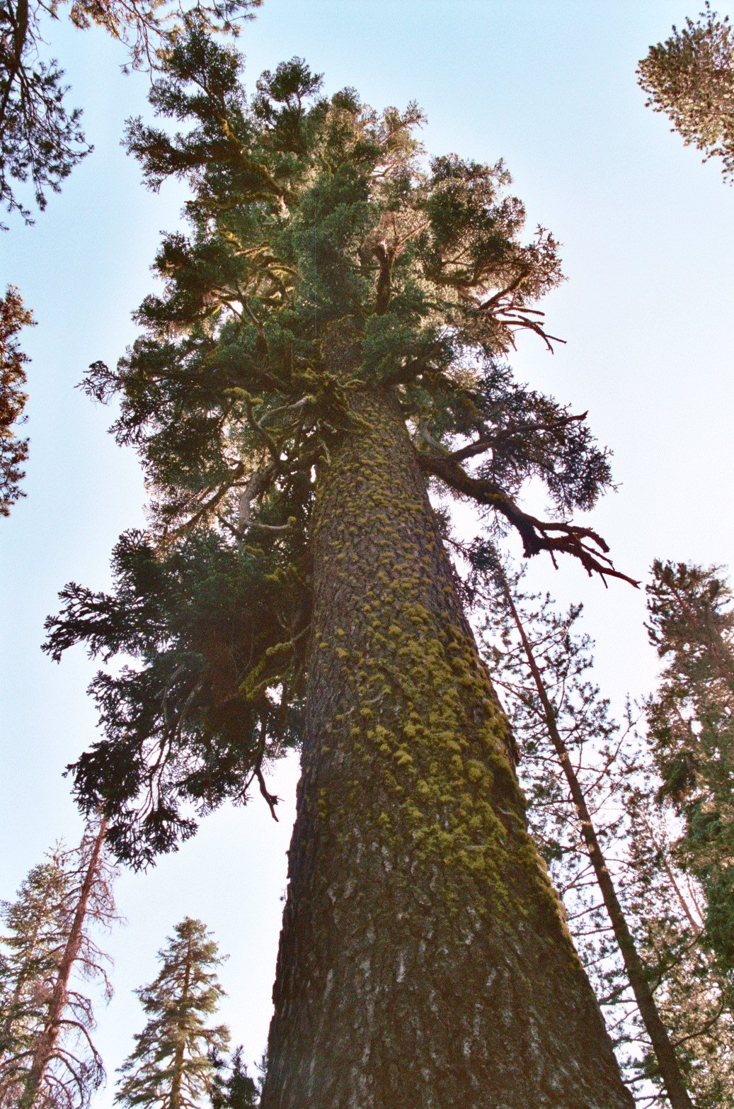 An old growth Red Fir (Category:Abies magnifica|Abies magnifica) tree along the Posey Lake Trail in the Caribou Wilderness area. Located within Lassen National Forest, Northern California.